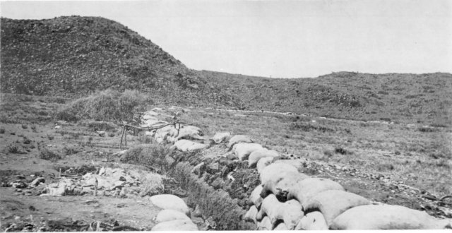 Photograph of the Boer trench in front of Magersfontein Hill